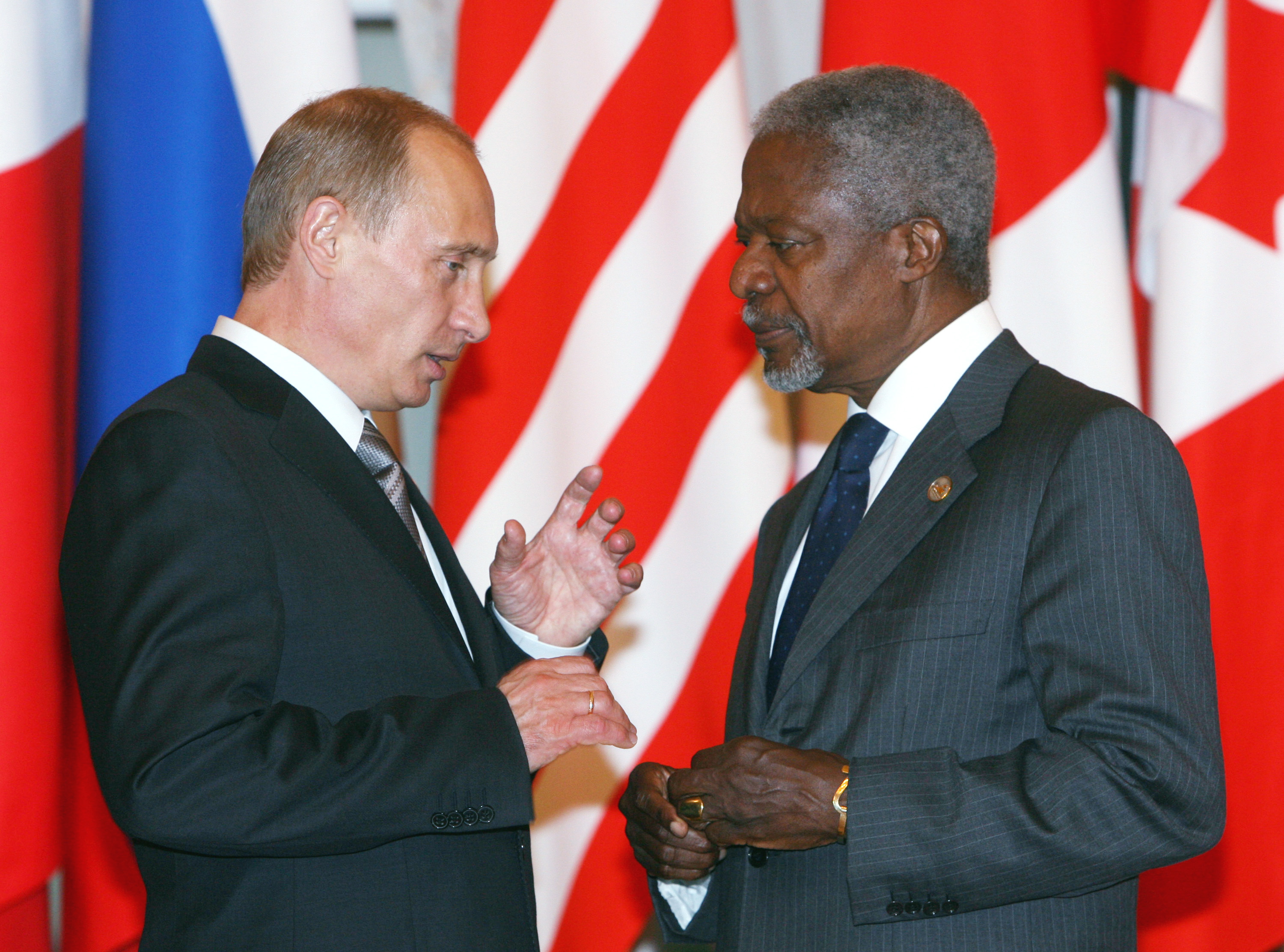 Russian President Vladimir Putin and UN Secretary General Kofi Annan (left to right) before the official photo session of the G8 leaders, invited leaders and heads of international organizations.